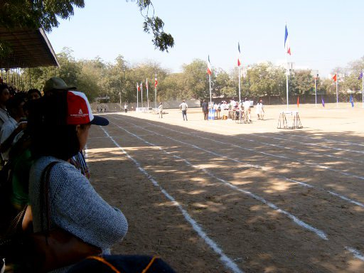 Sportsday at St. Xavier's High School Loyola Hall (The main track). Taken by self.